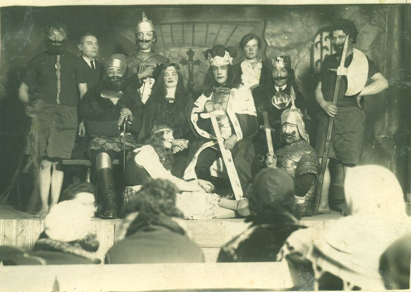 Members of Pavasaris organization performing historical drama about Vytautas the Great